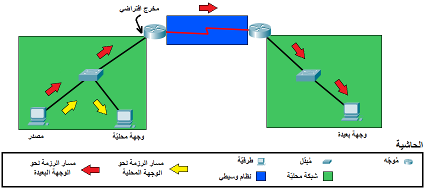 The concepts and terms beyond the routing of a unicast packet.